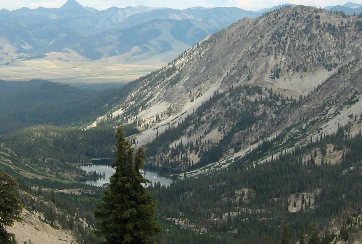 Farley Lake in the Sawtooth Wilderness of the Sawtooth National Recreation Area from Sand Mountain Pass in Idaho